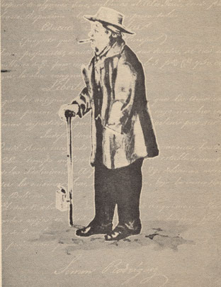 Simón Rodríguez portrait by his disciple A. Guerrero